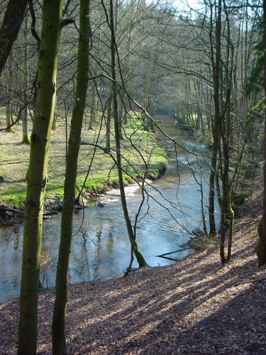 Bille river in Sachsenwald forest near Witzhave